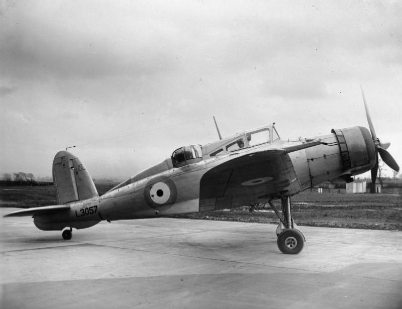 The first Royal Navy Blackburn Roc (s/n L3057), which made its first flight on 23 December 1938.